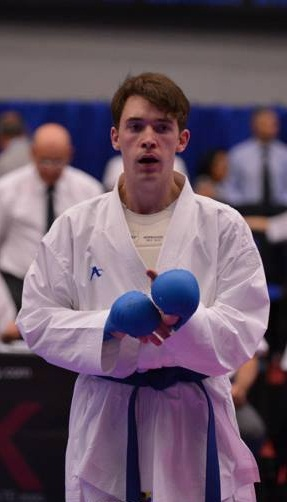 Urban bei der WKF Europameisterschaft 2013 in Budapest